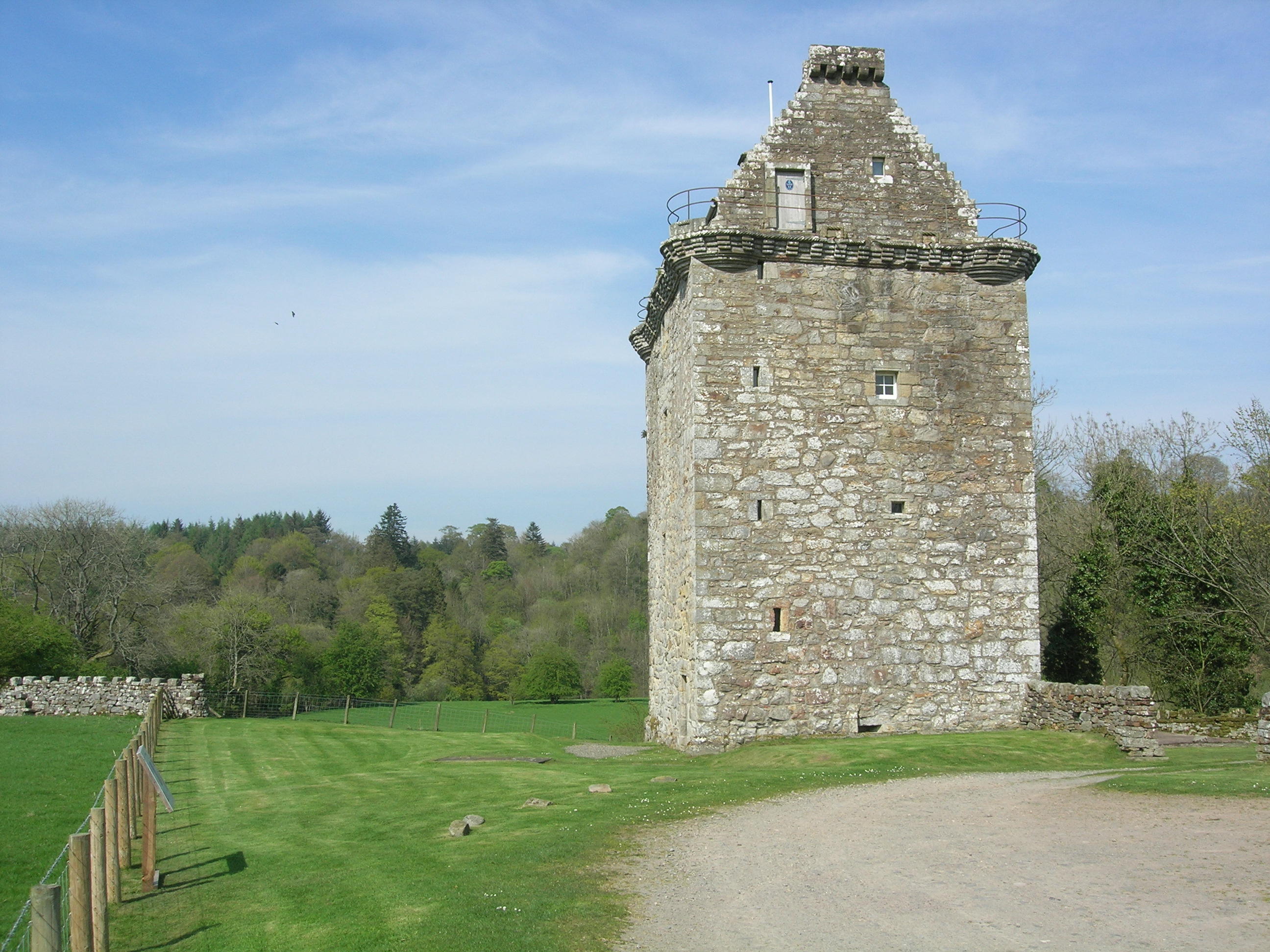 Taken by myself (Erik Swanson) on April 29, 2007.